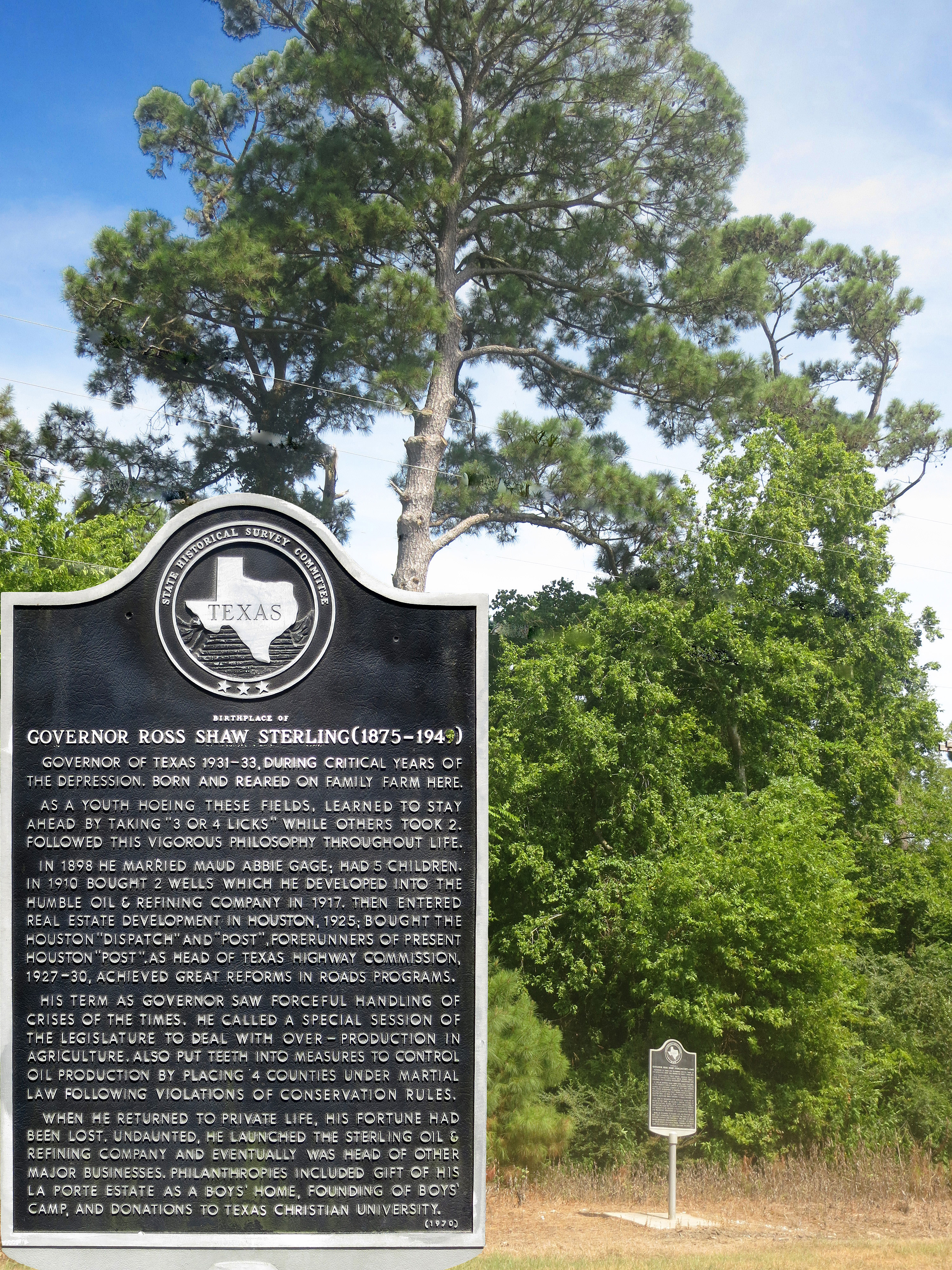 Ross Shaw Sterling was born and raised on his family's farm south of Anahuac, Texas. Governor of Texas 1931-33, during critical years of the Depression. Born and reared on family farm here. As a youth hoeing these fields, learned to stay ahead by taking "3 or 4 licks" while others took 2. Followed this vigorous philosophy throughout life. In 1898 he married Maud Abbie Gage; had 5 children. In 1910 bought 2 wells which he developed into the Humble Oil & Refining Company in 1917. Then entered real estate development in Houston, 1925: bought the Houston "Dispatch" and "Post," forerunners of present Houston "Post." As head of Texas Highway Commission, 1927-30, achieved great reforms in roads programs. His term as governor saw forceful handling of crises of the times. He called a special session of the Legislature to deal with over-production in agriculture. Also put teeth into measures to control oil production by placing 4 counties under martial law following violations of conservation rules. When he returned to private life, his fortune had been lost. Undaunted, he launched the Sterling Oil & Refining Company and eventually was head of other major businesses. Philanthropies included gift of his La Porte estate as a boys' home, founding of boys' camp and donations to Texas Christian University